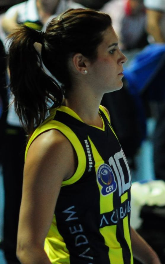 Turkish volleyball player Yagmur Kocyigit during a match for Fenerbahce Acibadem Women's Volleyball Team